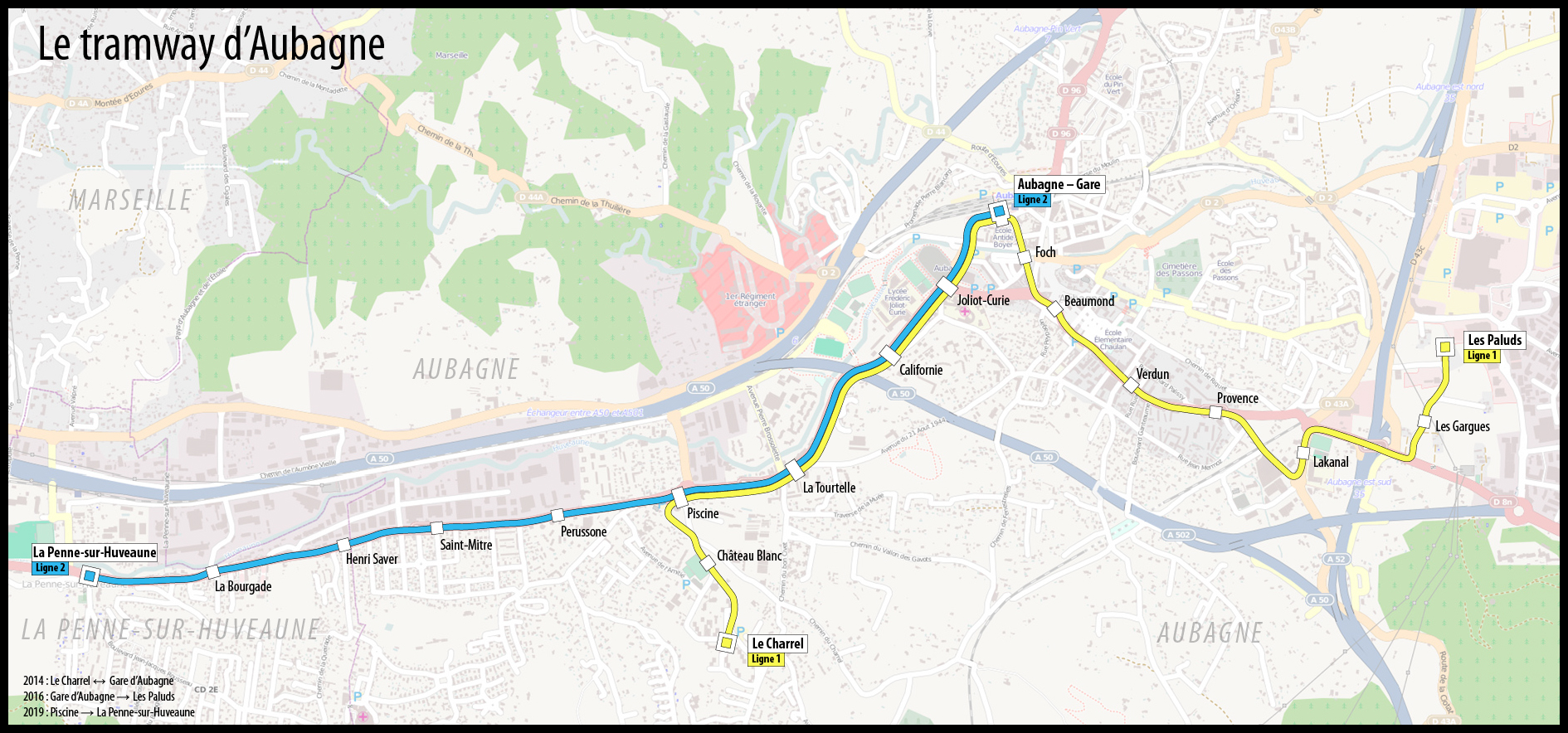 Map of the Tram Lines in the city of Aubagne (13-France)